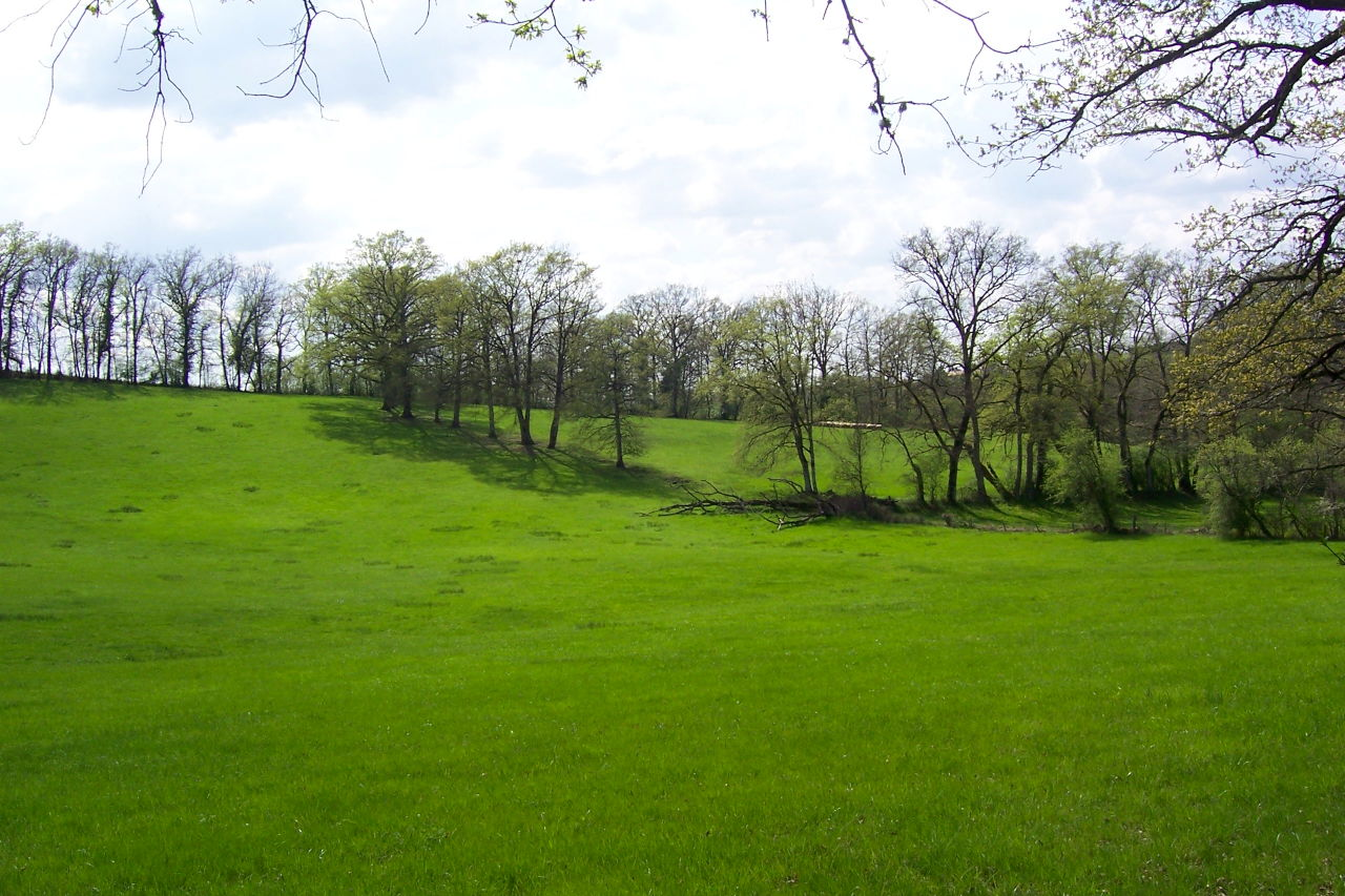 View of grassland in "Limargue" at the north east of town Sonac in Lot department in France.